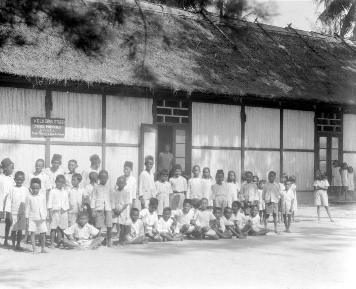 Portrait of schoolchildren in front of the library at Dobo, Aru Islands